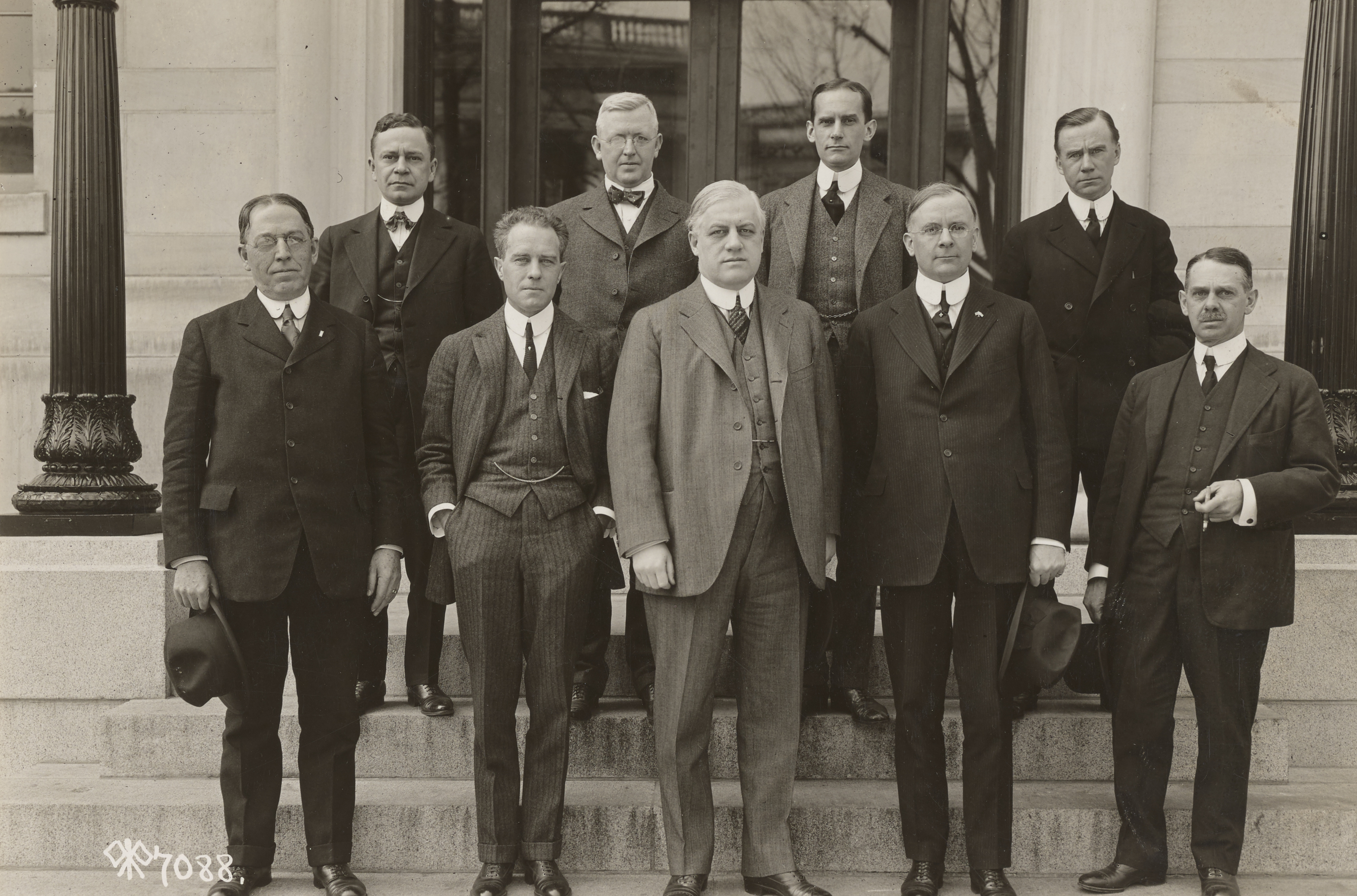 General notes: Front row, left to right: Homer A. Dunn, J. Lionberger Davis, A. Mitchell Palmer, Ralph Stone. Back row, left to right: Norman D. Dreher, W. G. Fitzpatrick, Mansfield Ferry, Francis P. Carvan